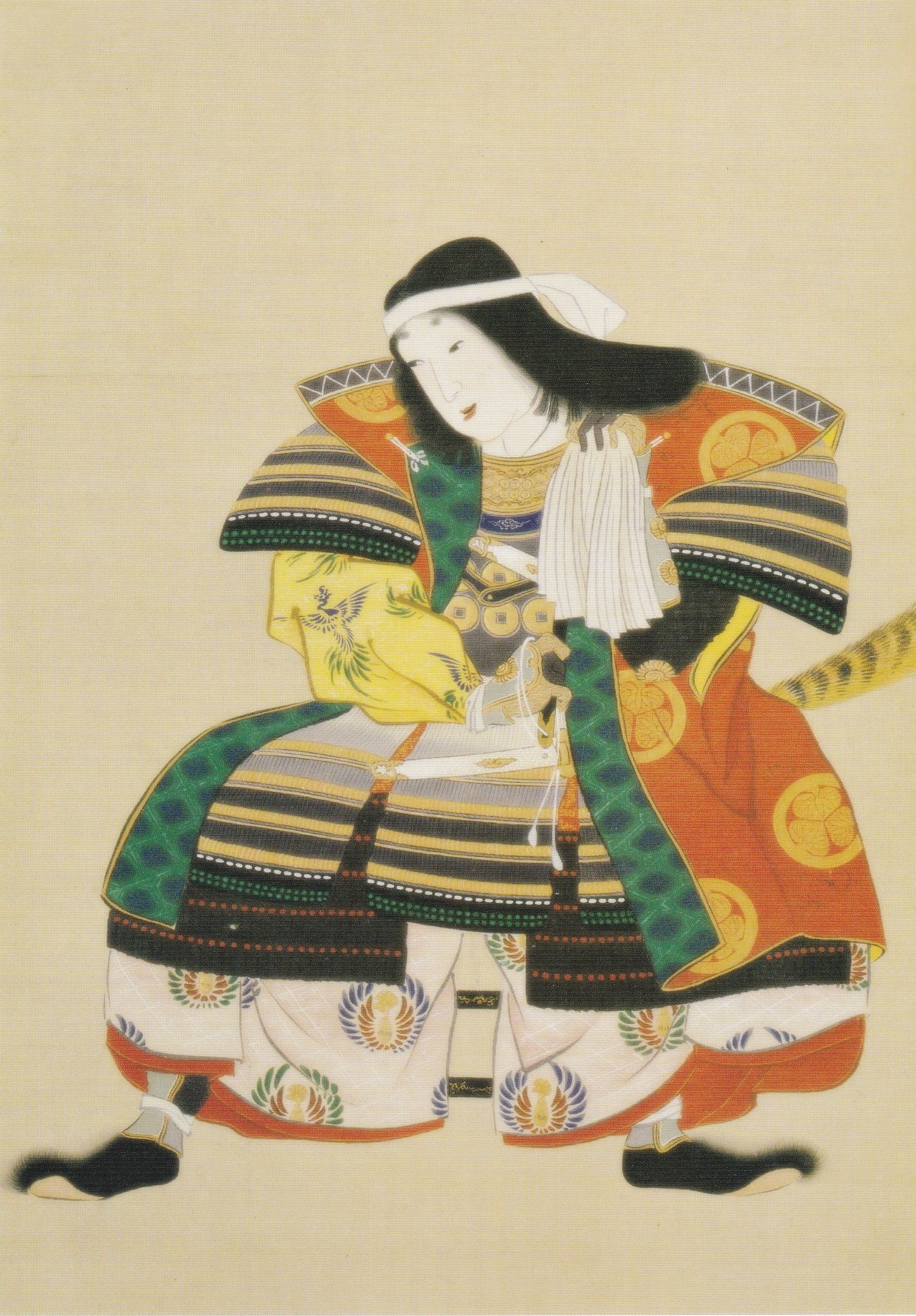 Portrait of Komatsuhime